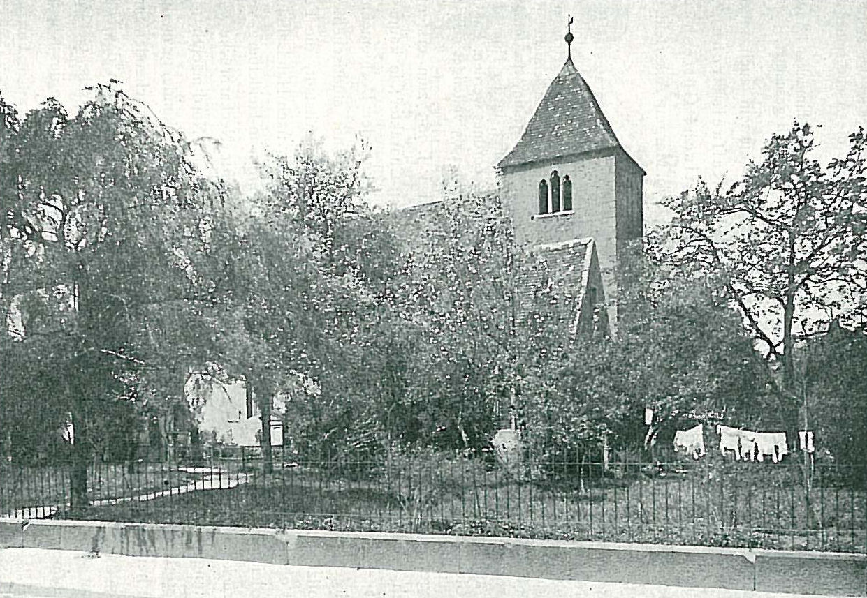 historical view of Heidelberg